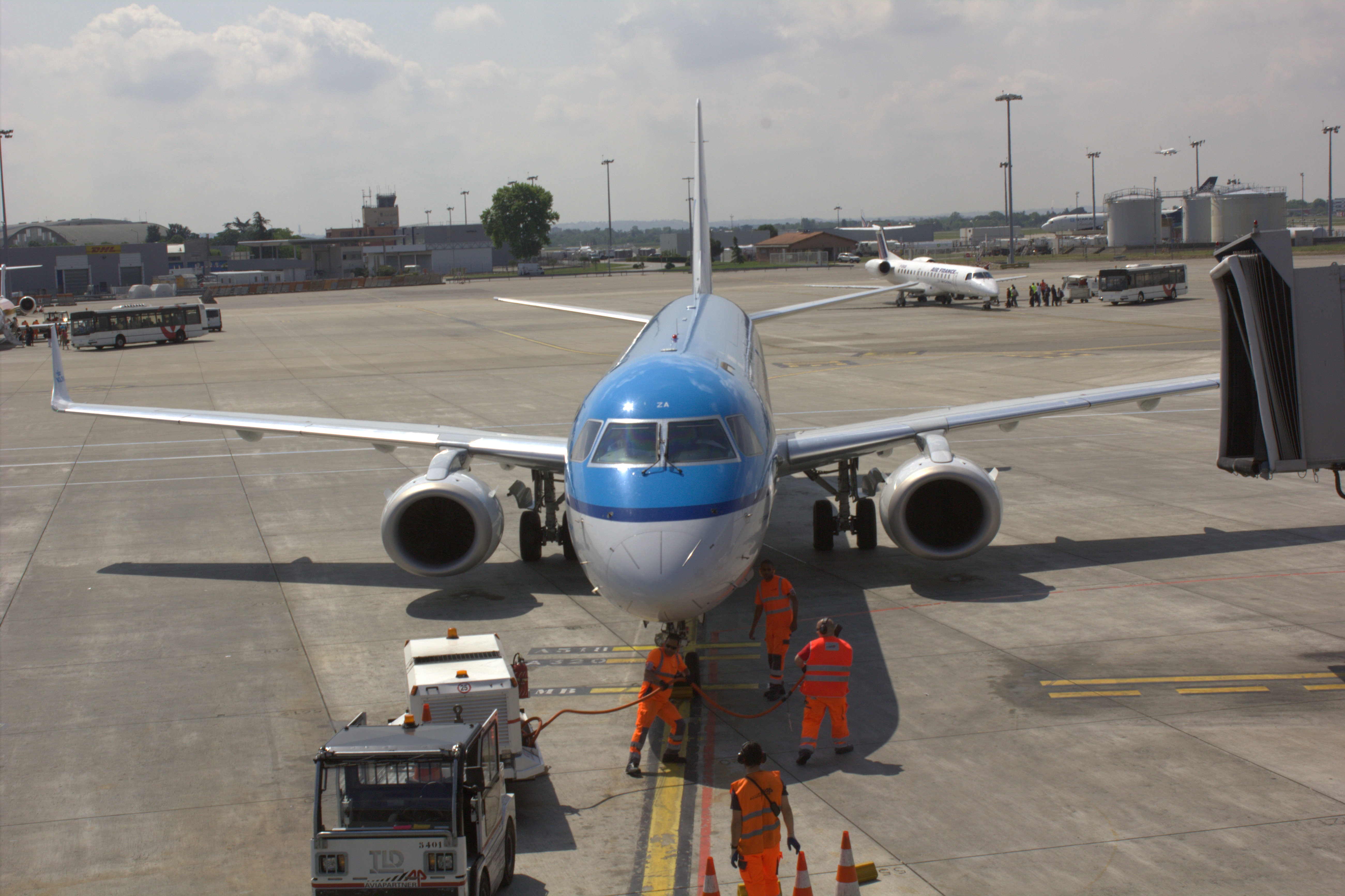 Installing GPU on an KLM Embraer 190